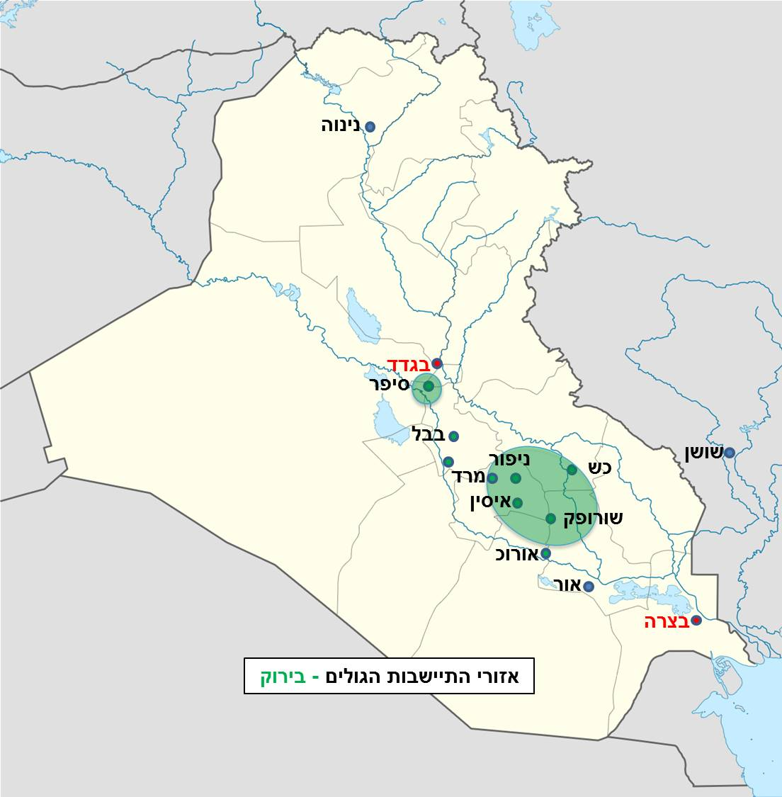 Areas of Judean exiles in Babylon